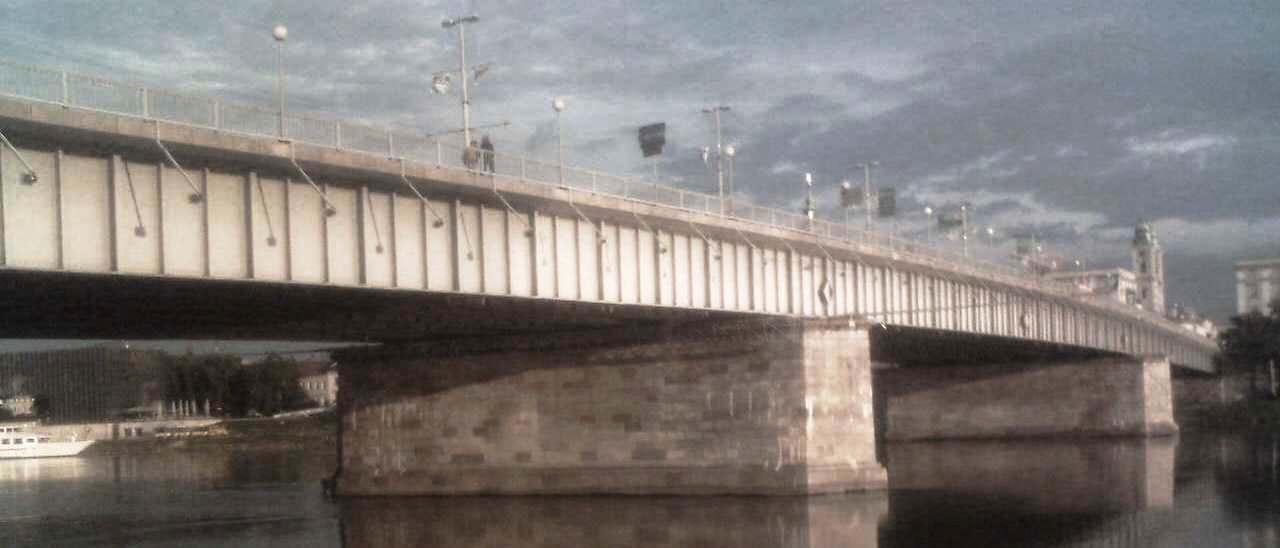 picture taken by myself, showing the Nibelungen-Bridge (Nibelungenbrücke) in Linz, Austria. Picture taken on September 19th 2005 in the evening.